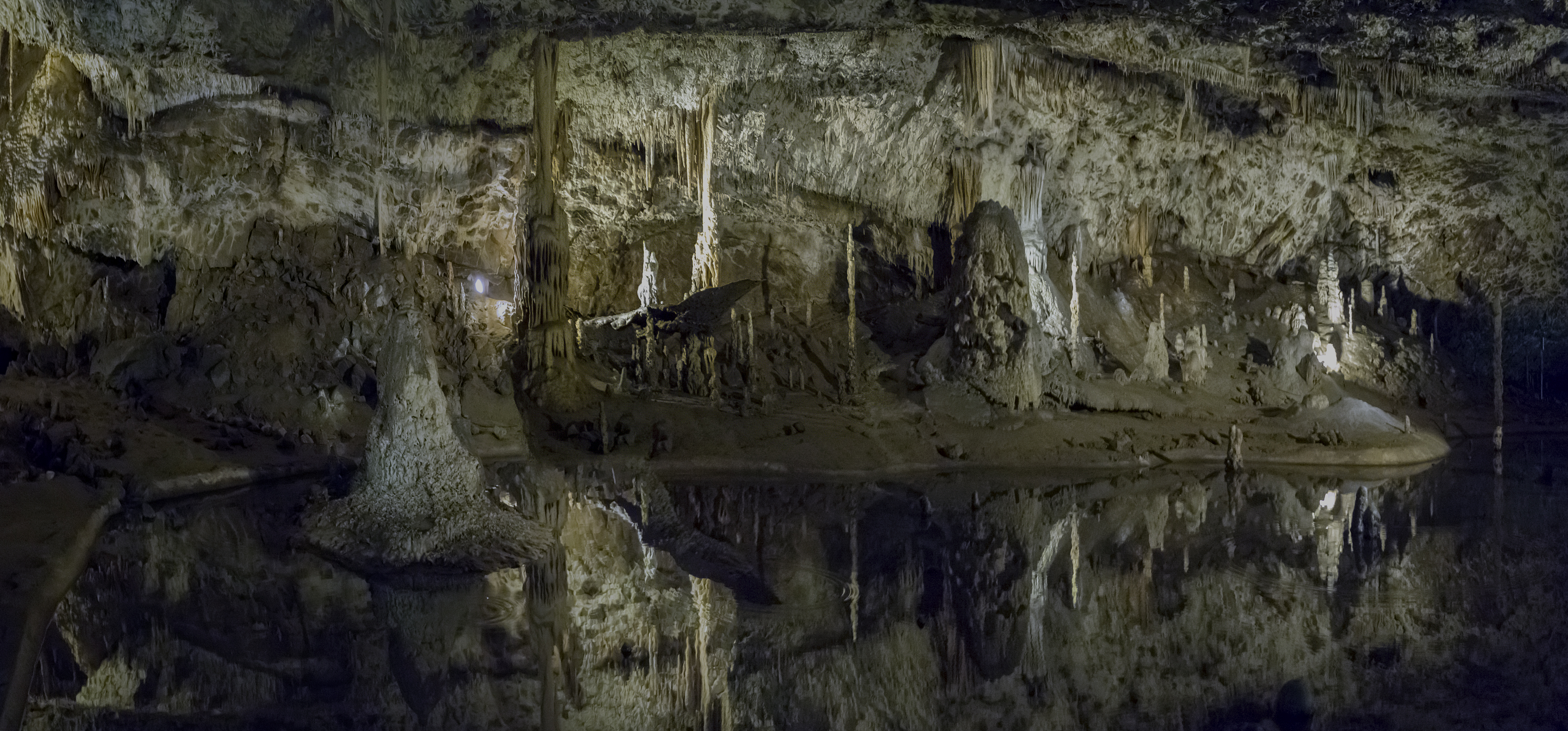 Punkevní jeskyně (Czech Republik) - Mirror Lake Česky: Punkevní jeskyně - Zrcadlové jezírko